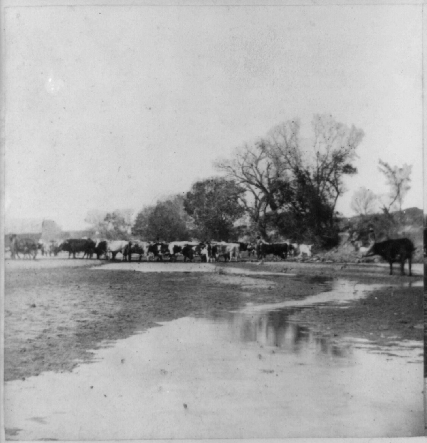 Source: Library of Congress Prints and Photographs Reading Room Cite: Photograph by A. Gardner, 1867; LC-USZ62-8087 (b&w film copy neg.) URL: Description: Cattle crossing the Smoky Hill River at Ellsworth, on the old Santa Fe crossing.